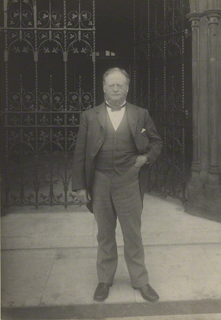 by Sir (John) Benjamin Stone, platinum print in card window mount, 1898